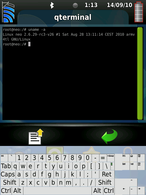 Screenshots of qtmoko v26 (uploaded by commonist) Terminal